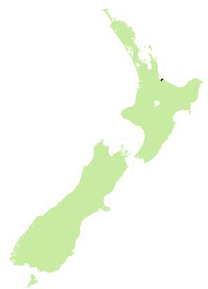 Map indicating the location of Tauranga electorate based on 2008 boundaries.